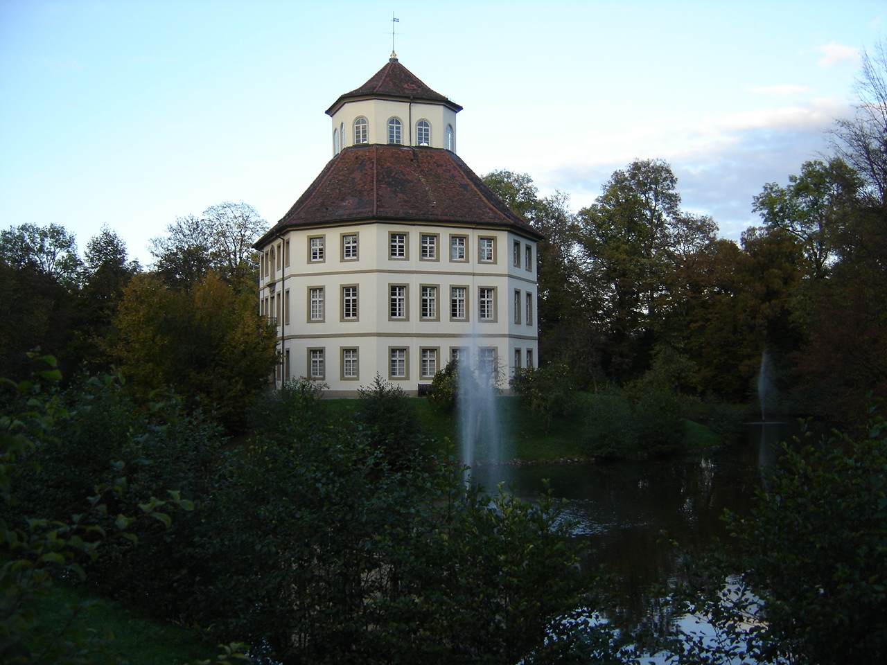 Oppenweiler Octogonal City Hall, Baden-Württemberg, Germany.